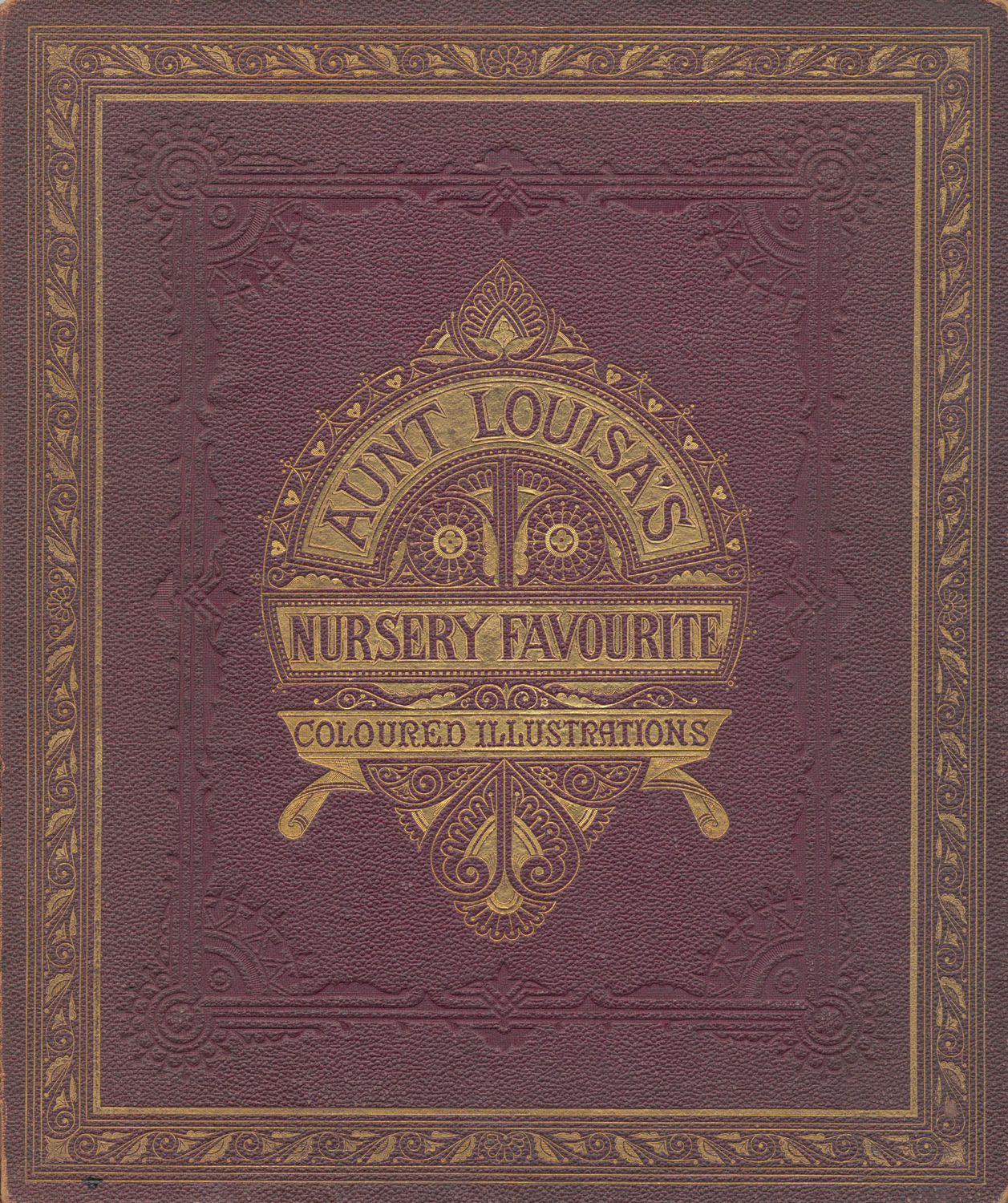 A scan of the book Aunt Louisa's Nursery Favourite.